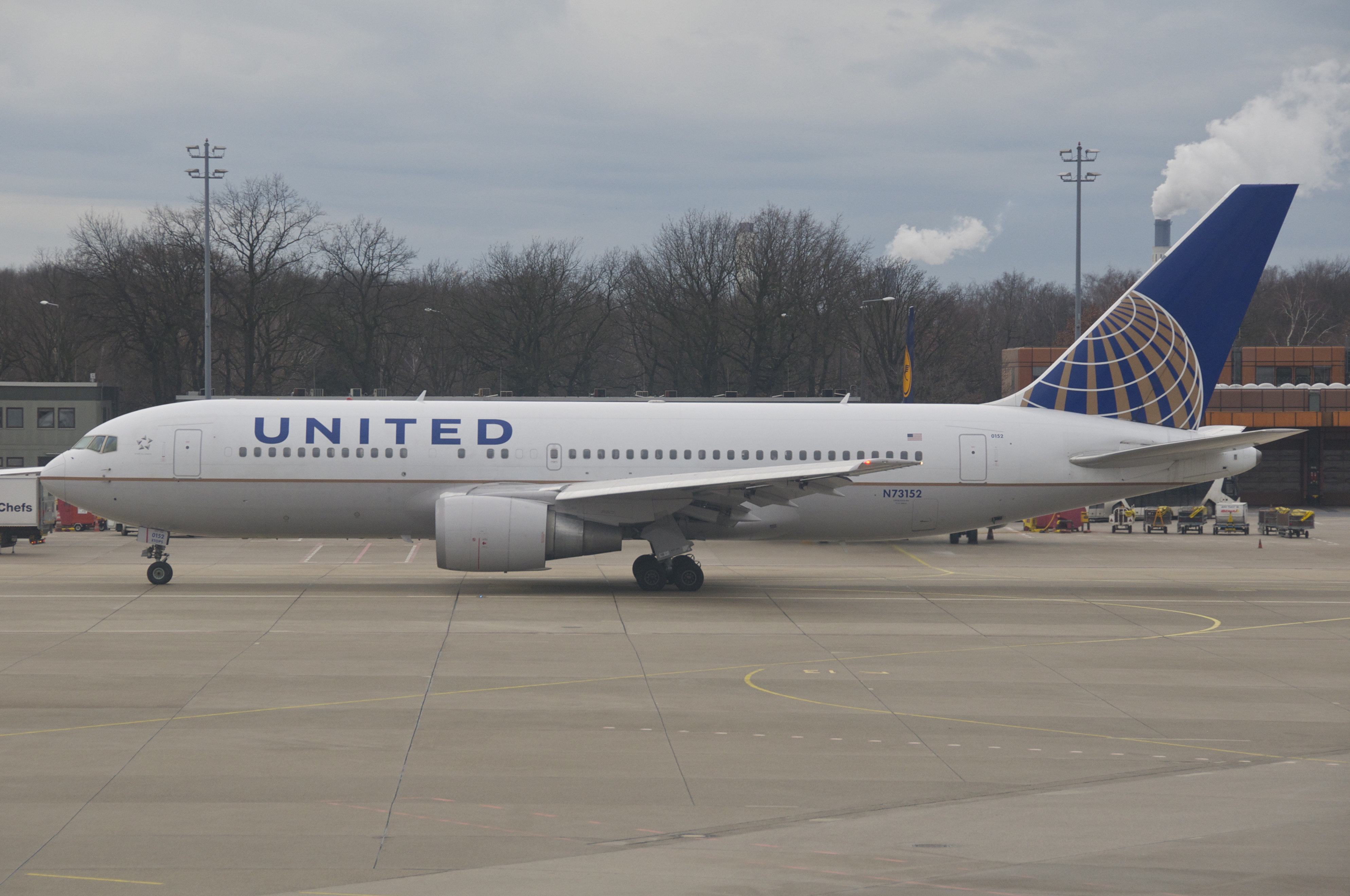 United Airlines Boeing 767-200; N73152@TXL;30.12.2012/684af